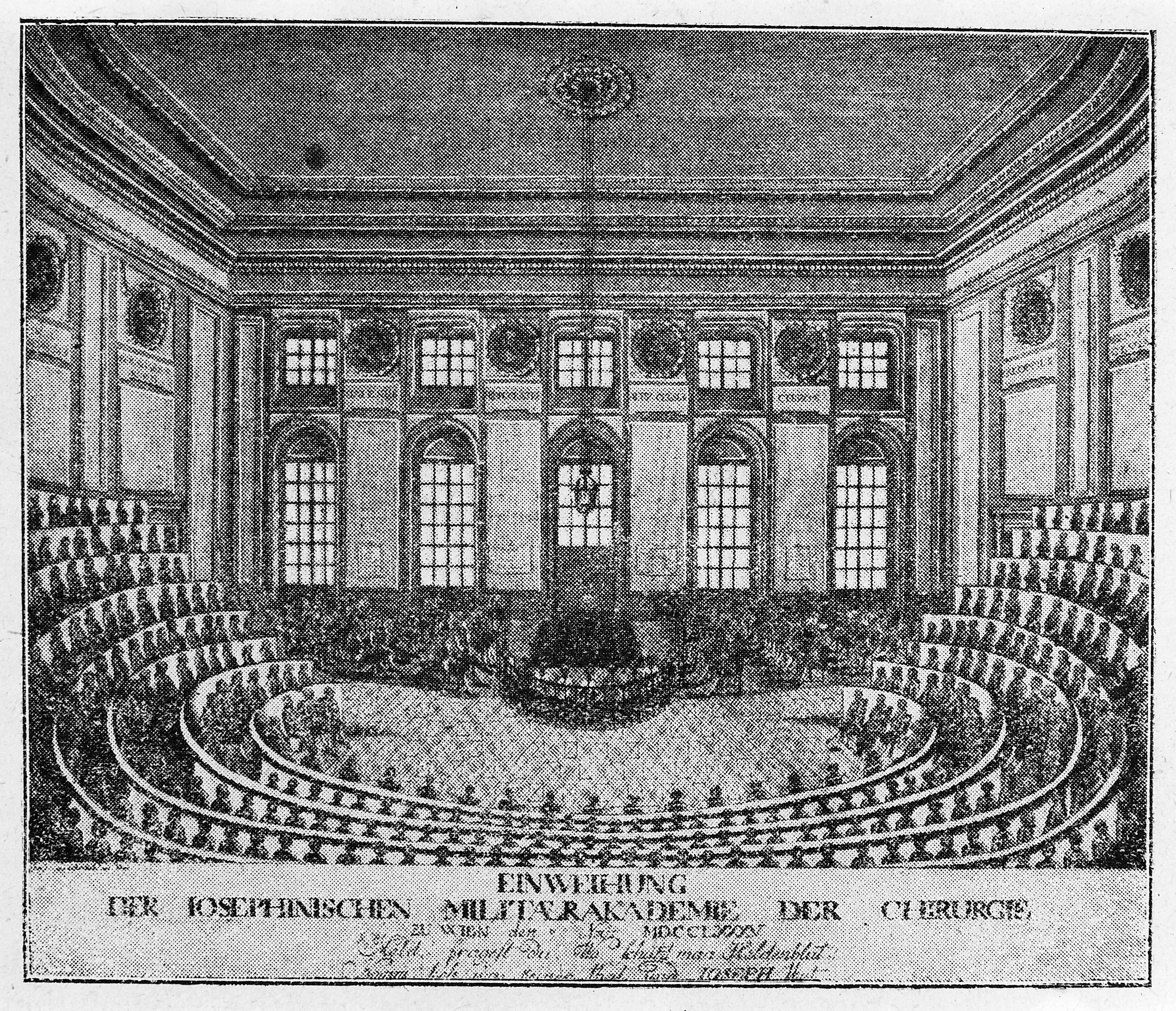 Interior of the Lecture Hall of the Josephinian Military Academy of Surgery, Vienna General Collections Keywords: Institutions; vienna